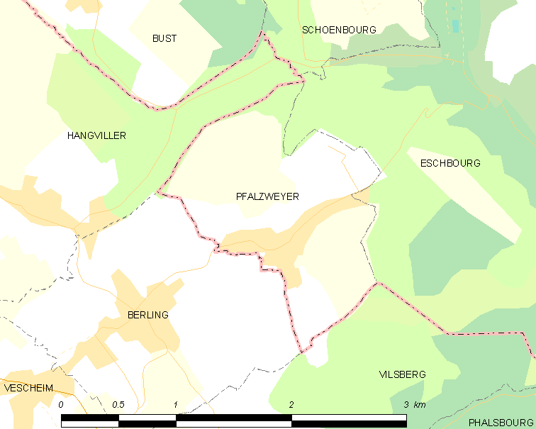 Map of French municipality